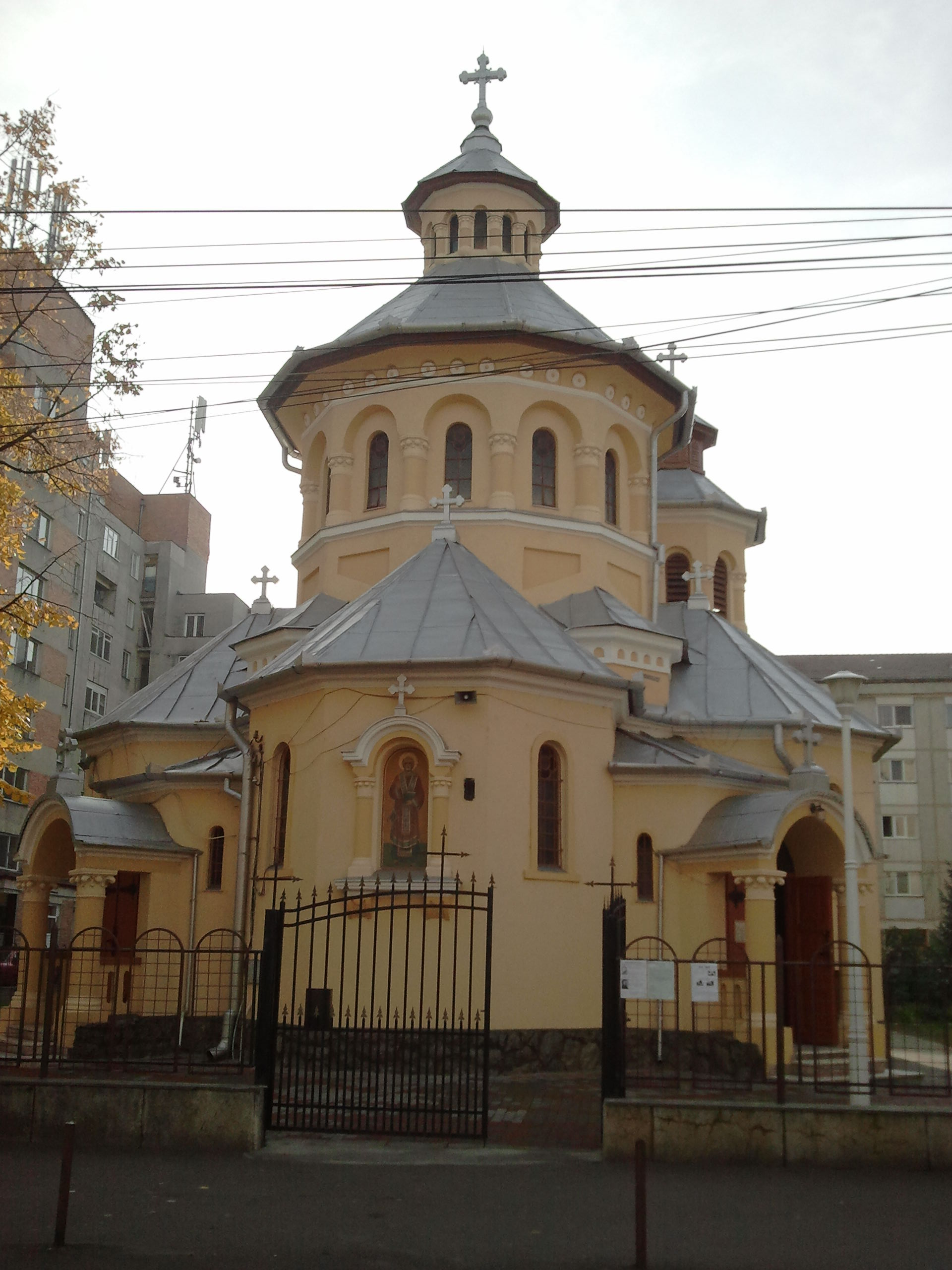 Nufarul Orthodox Church - Oradea